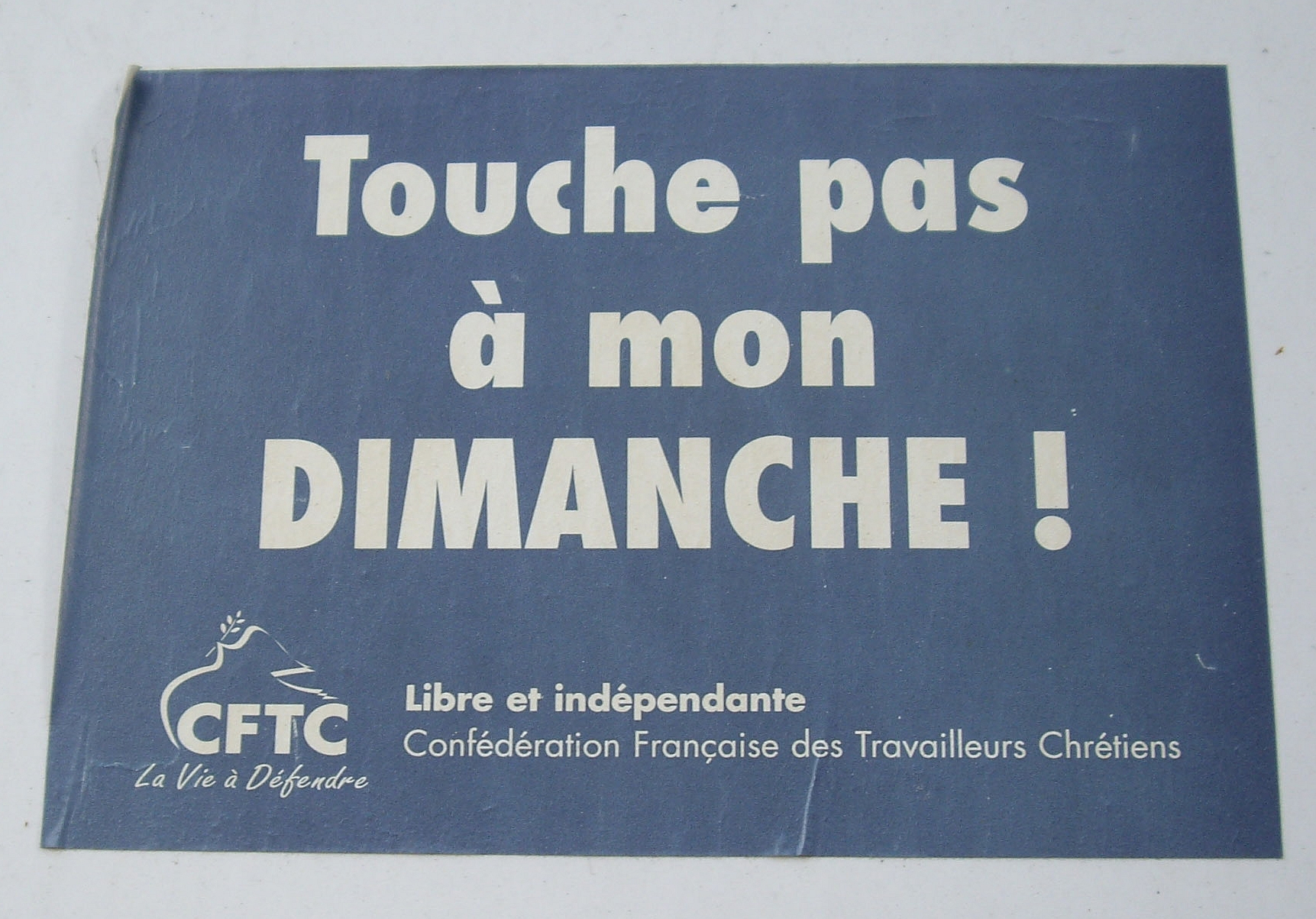 A political-protest poster displayed in a Paris street by the French Confederation of Christian Workers in 2010. Translation: "Keep your hands off my Sunday!"